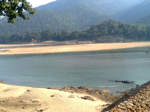 Mahanadi River near Athmallik